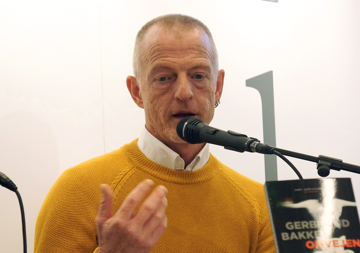 Gerbrand Bakker, writer from the Netherlands, presenting his work at the Danish Bookfair Bogforum 2012 in Copenhagen